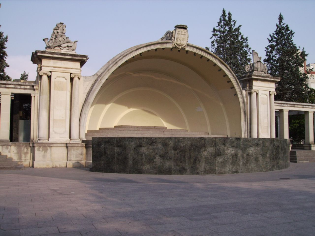 Auditoriom called la Concha "Shell" of Espolón Square in Logroño. It is the scenary of traditional "treading of the grapes" in local festivity "San Mateo"